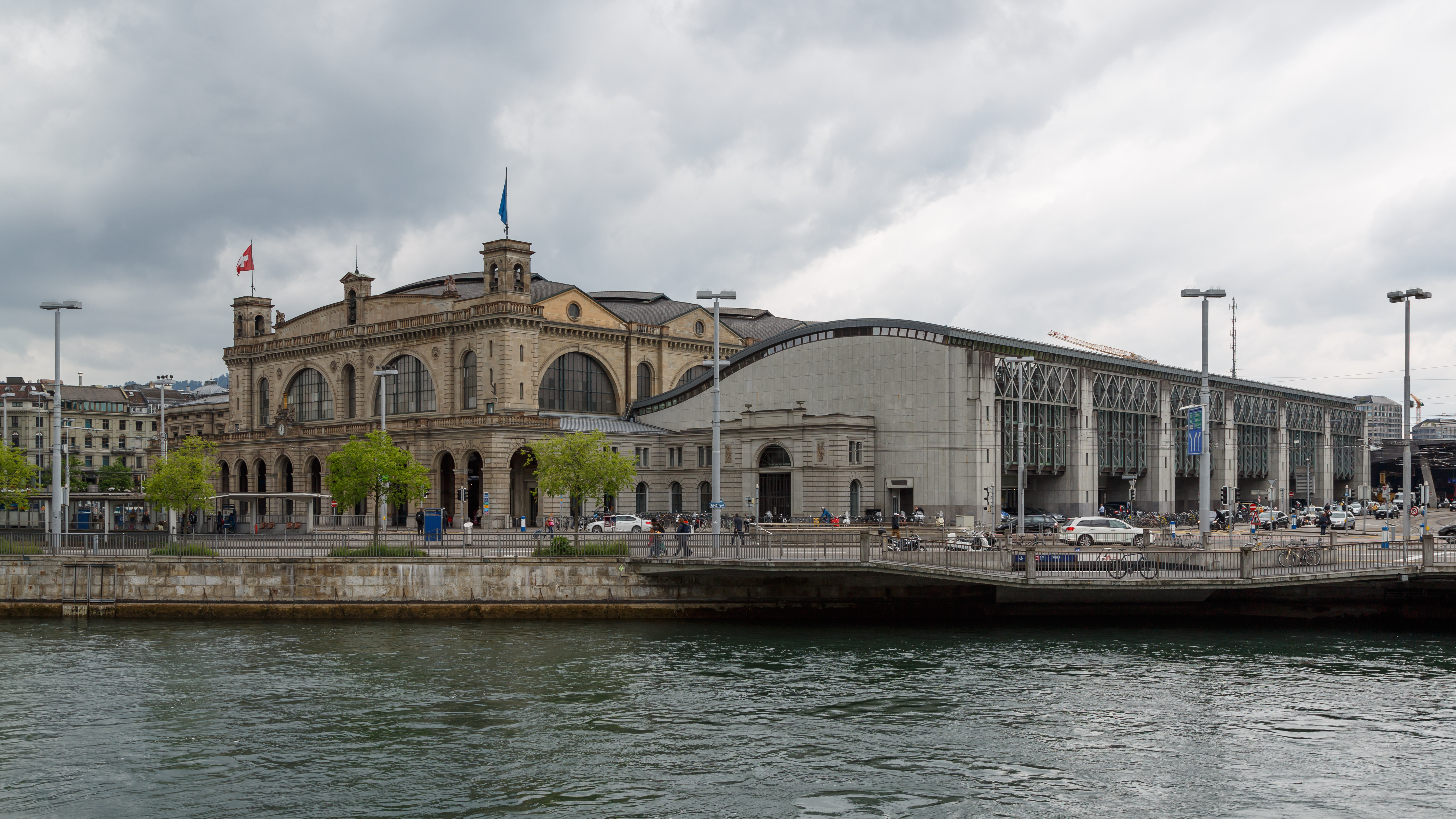 Zürich, Switzerland: Zürich Haptbahnhof seen from the Limmat River